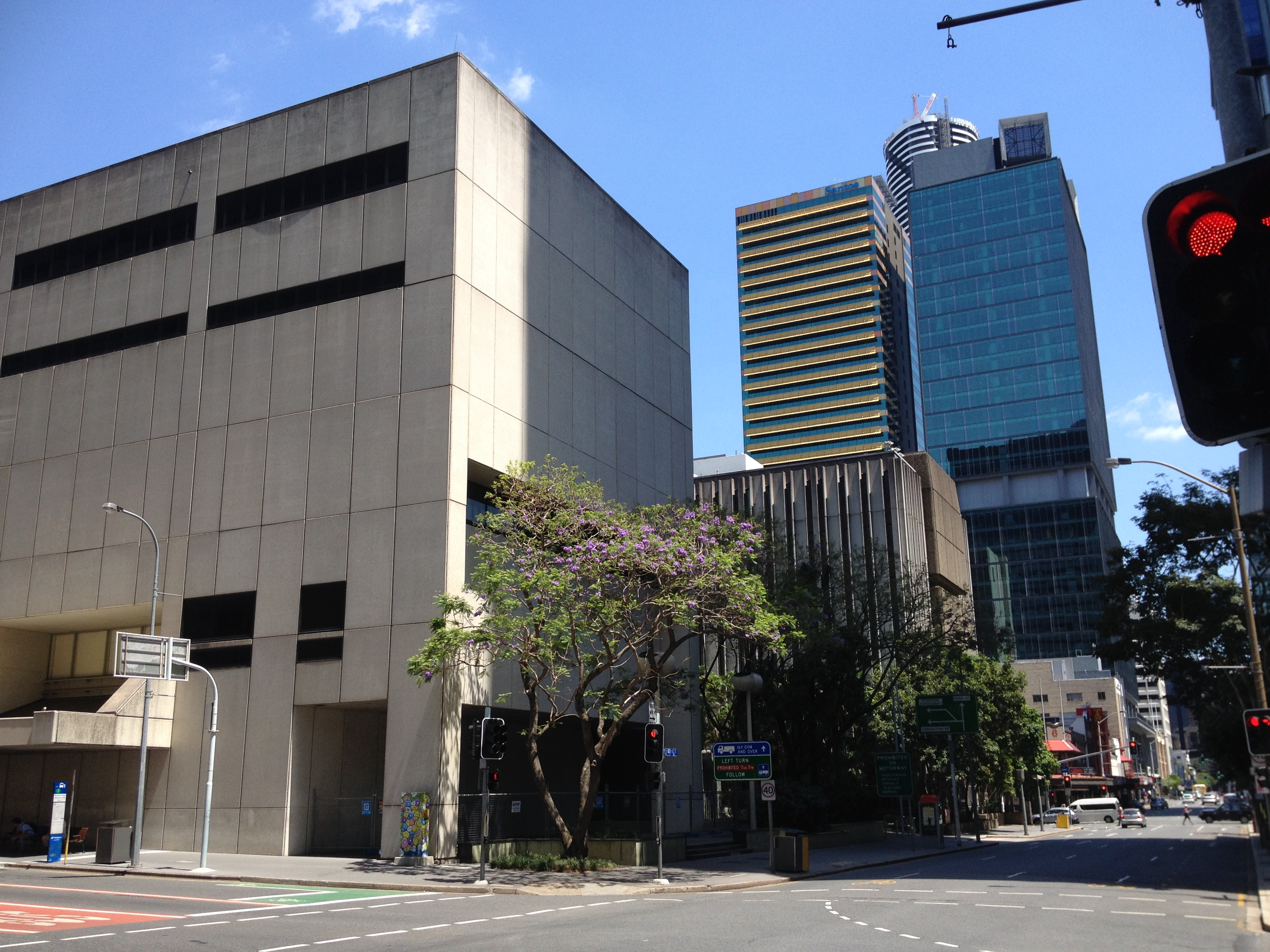 Former Law Courts, Brisbane in 11.2013, seen from the intersection of Adelaide Street, Brisbane with George Street, Brisbane